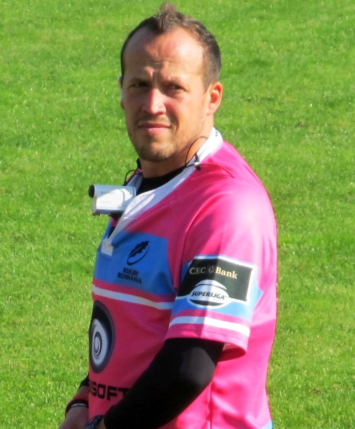 Romanian Rugby Union referee Vlad Iordachescu seen officiating during a match between SuperLiga teams CSM București and rivals CSM Baia Mare.